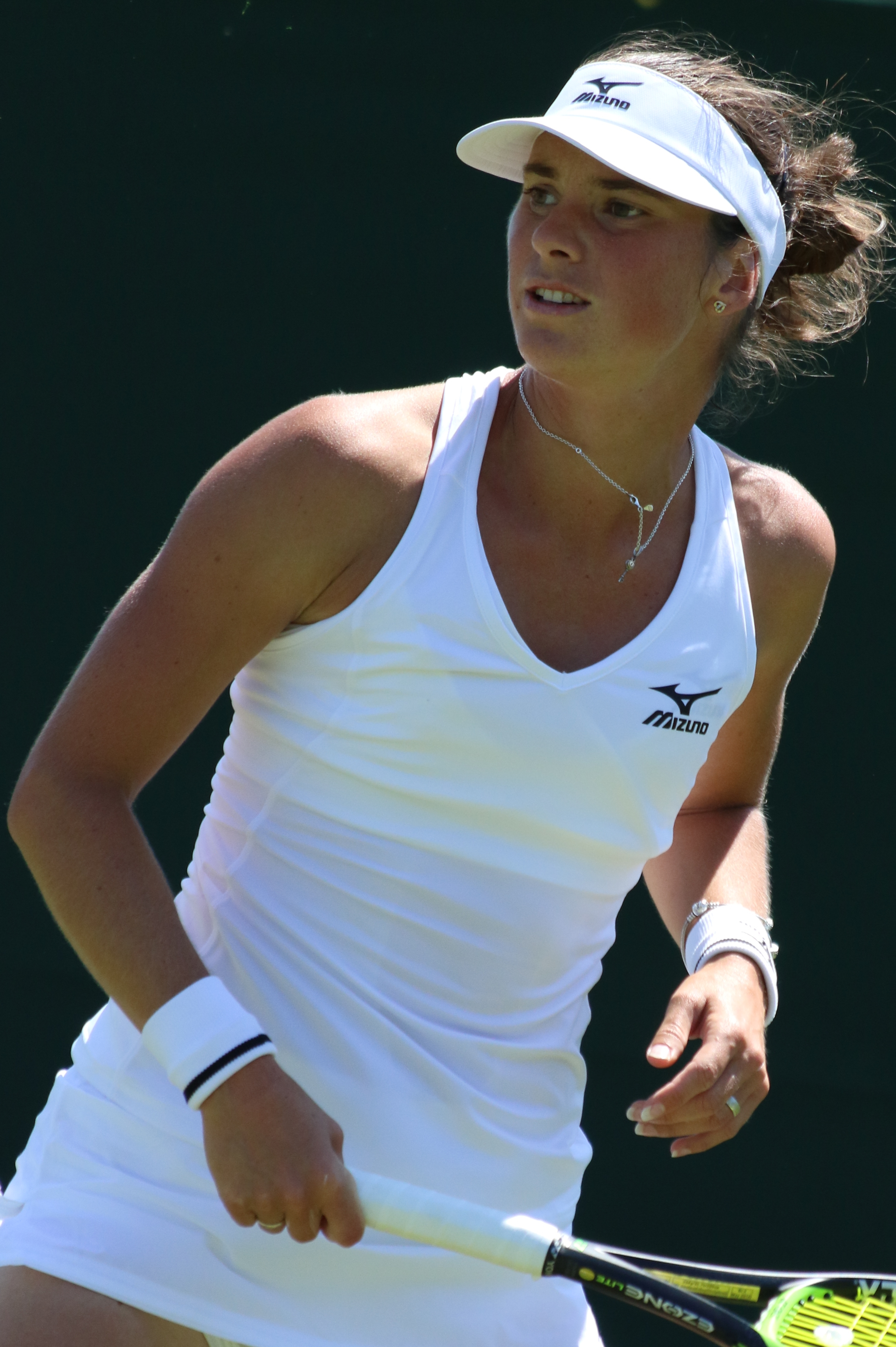 Schoofs WMQ18 (14)